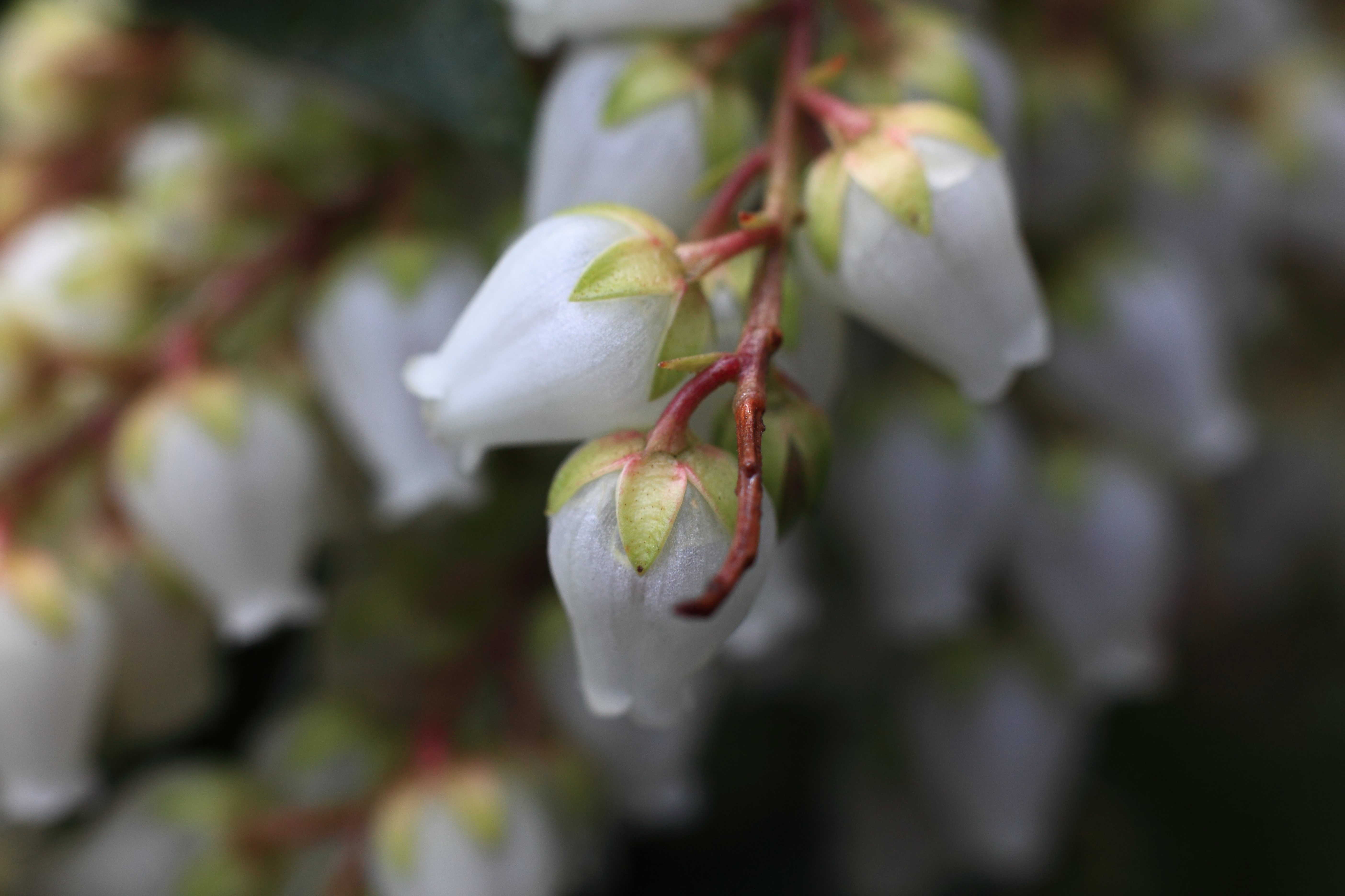 Tojogaoka History Park, Matsudo-shi(city) Chiba-ken(Prefecture), Japan ?????? ????(???????)????(???????)